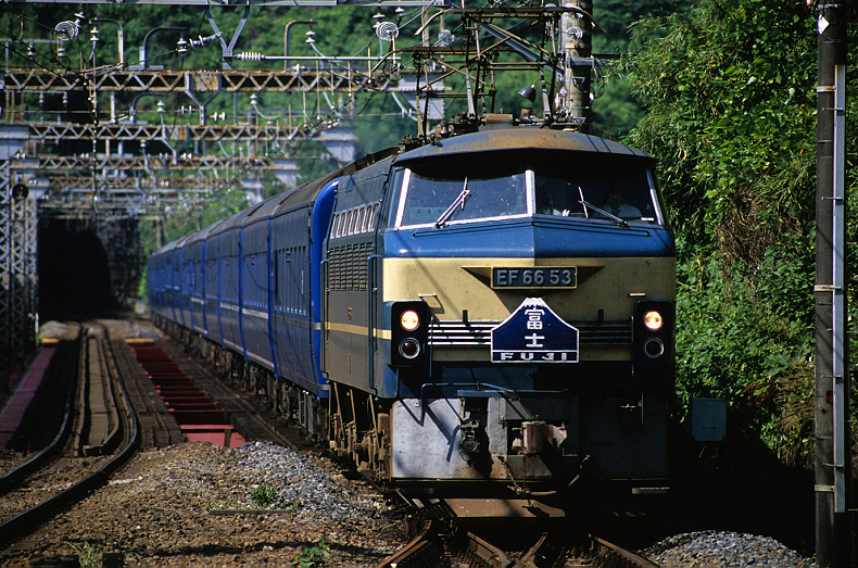 JR West Class EF66 electric locomotive EF66 53 hauling the Fuji sleeping car service